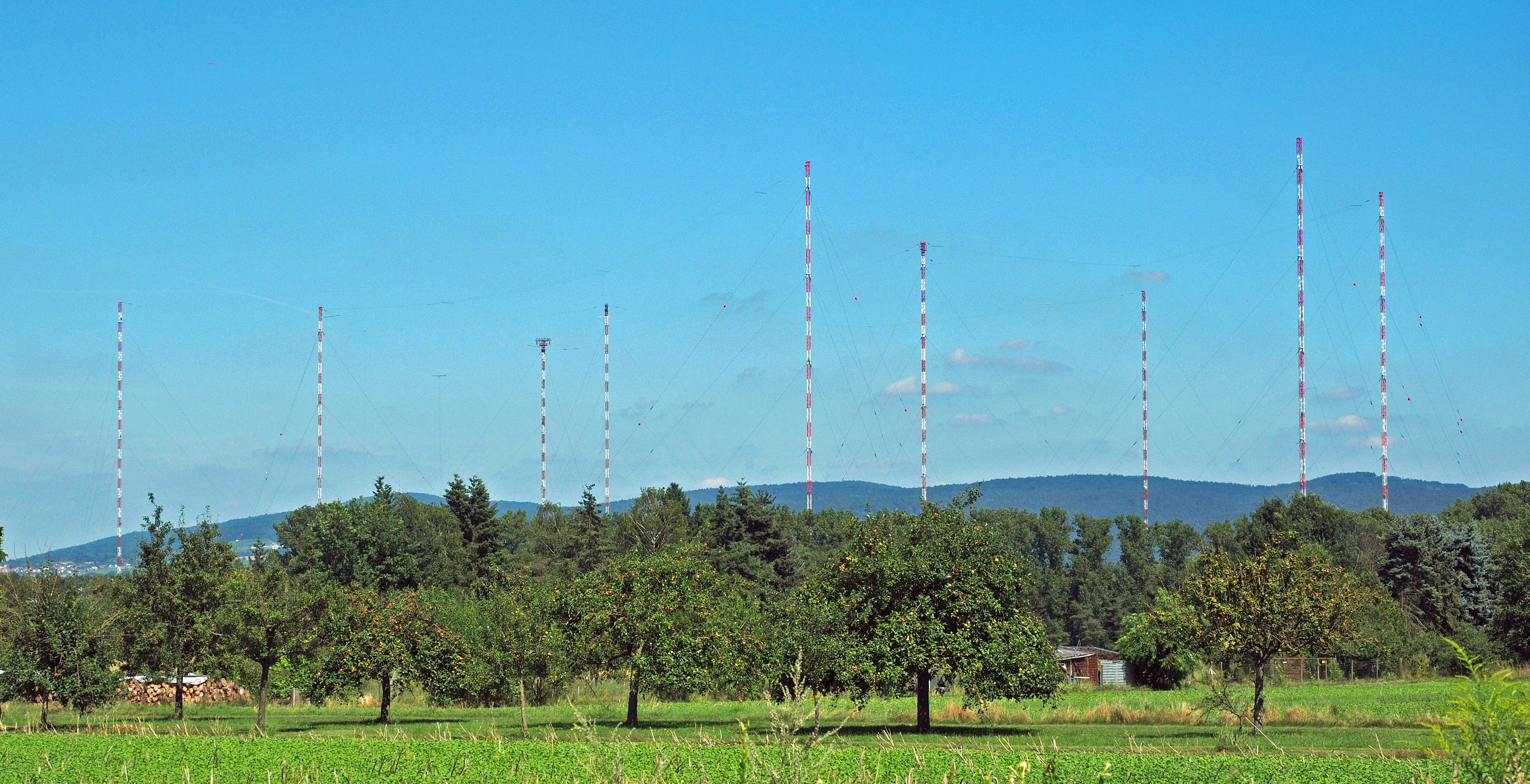 View on Mainflingen transmitter station